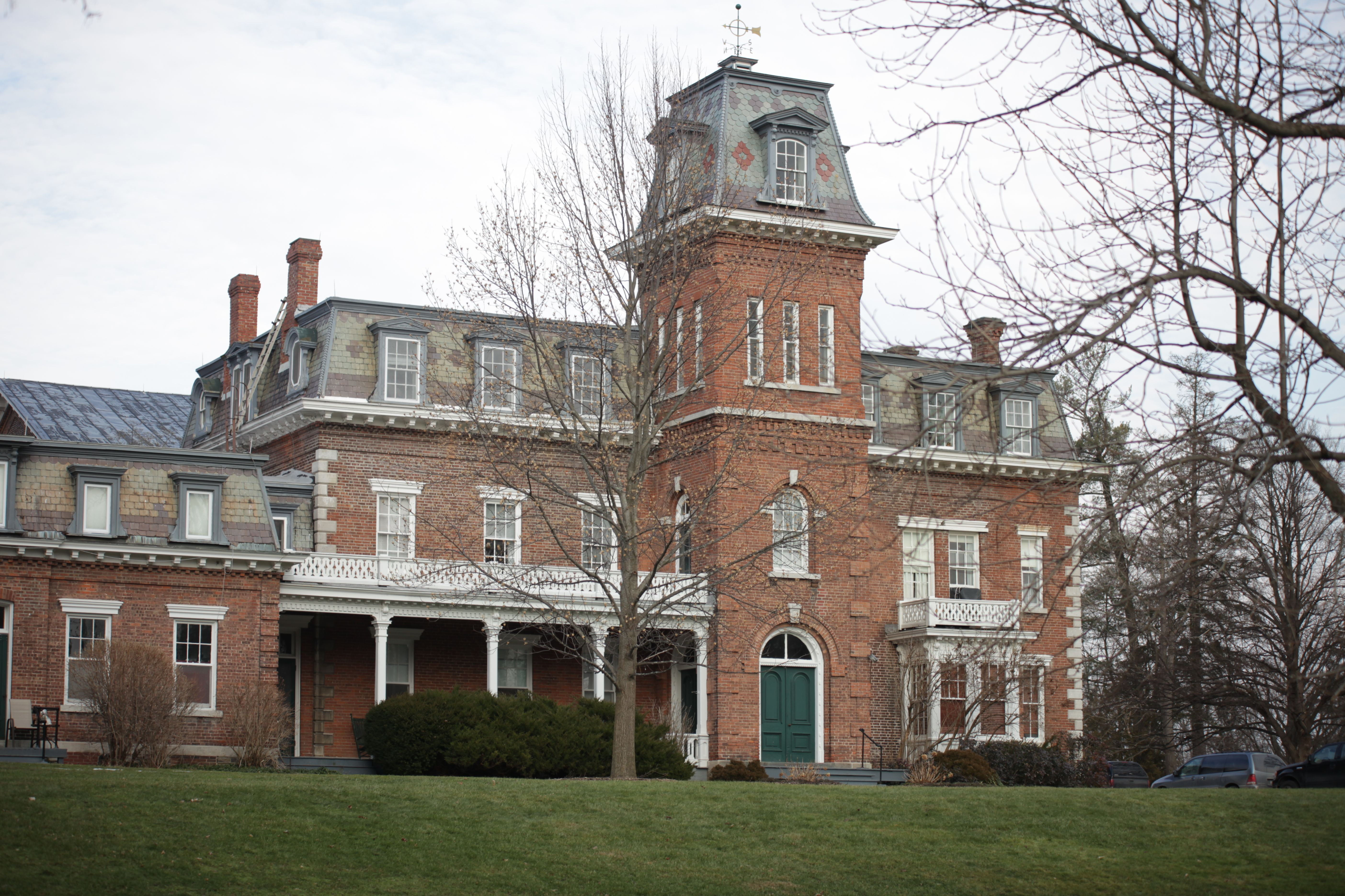 Oneida Community Mansion, taken from street